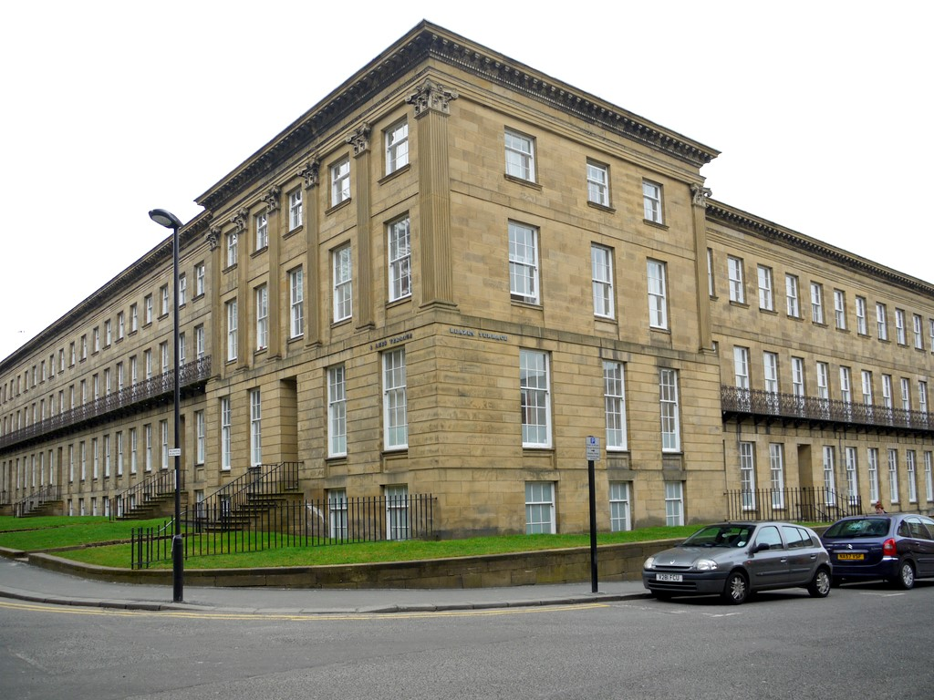 Leazes Terrace, south corner. See 1762566 for panoramic view of north-west side.